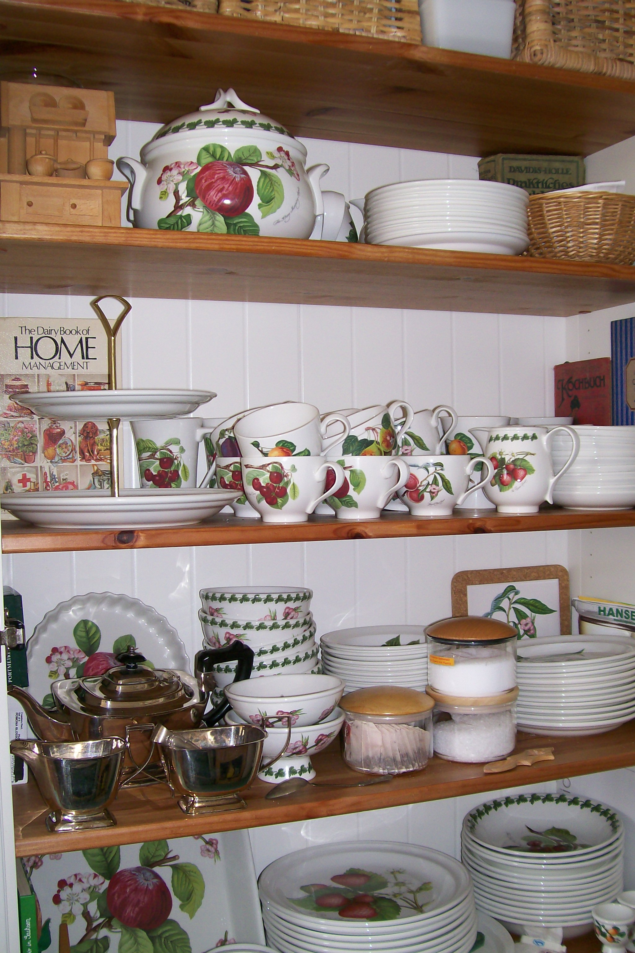 Tableware made by Portmeirion Pottery, Stoke-on-Trent, Staffordshire, England, décor Pomona Tafelgeschirr, hergestellt von Portmeirion Pottery in Stoke-on-Trent, Staffordshire, England; Dekor Pomona